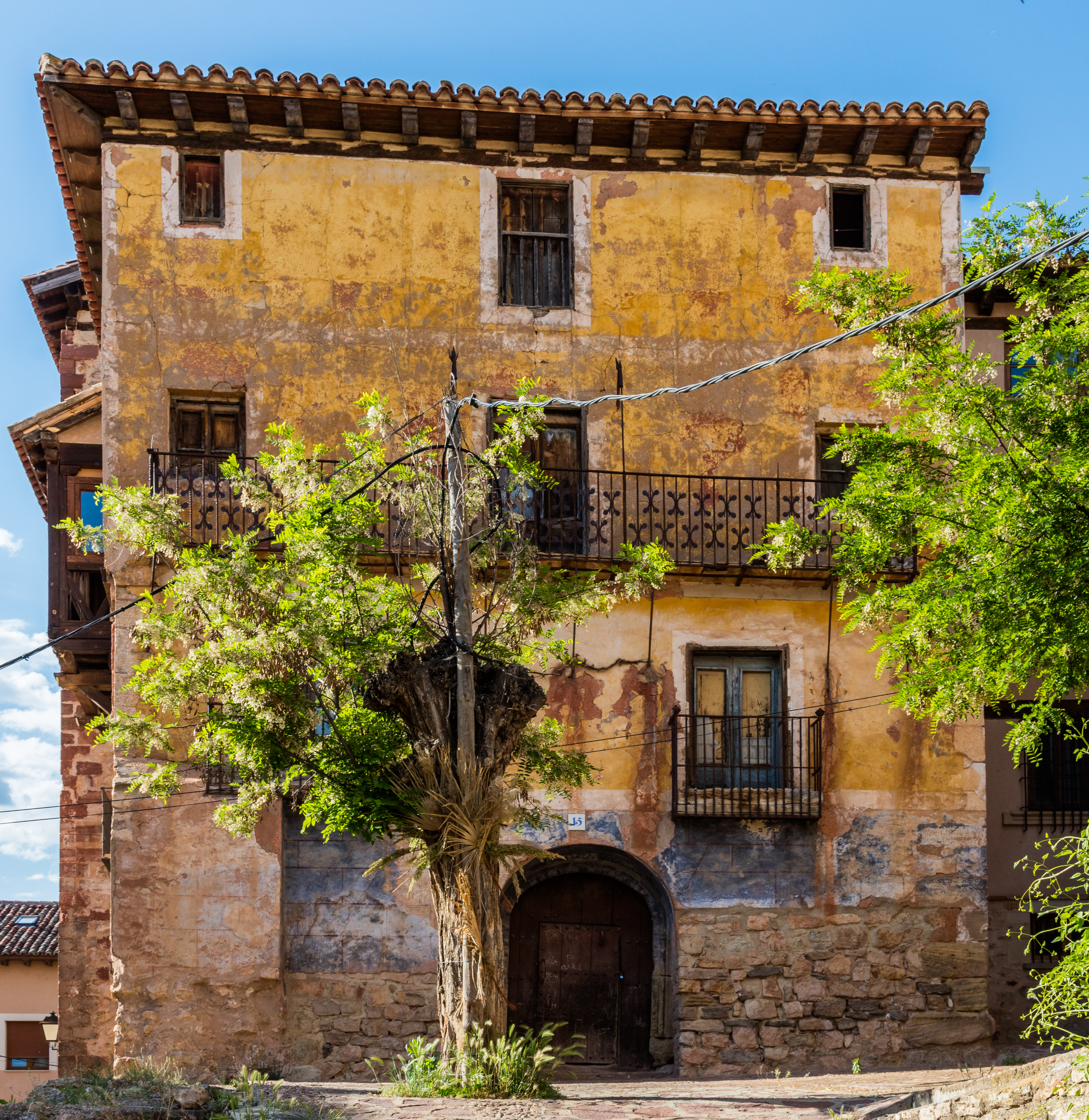 Posada de los Comuneros, Molina de Aragón, Guadalajara, Spain